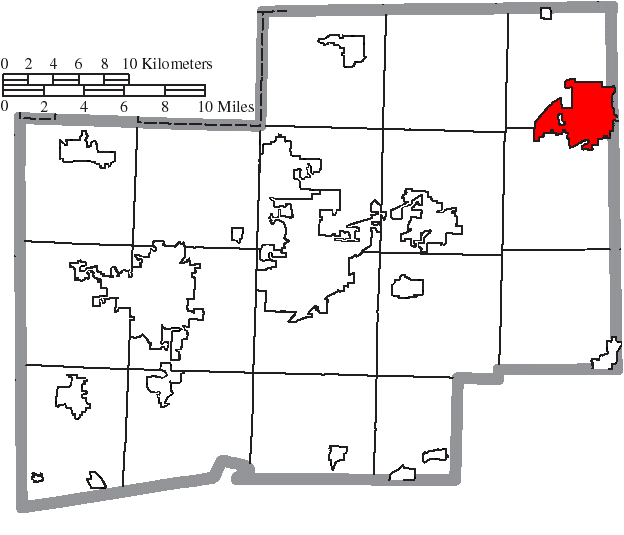 Map of the municipal and township boundaries of Stark County, Ohio, United States, as of the 2000 census, with the location of the city of Alliance highlighted. Township borders are shown only in unincorporated areas in order to differentiate incorporated and unincorporated areas more clearly.